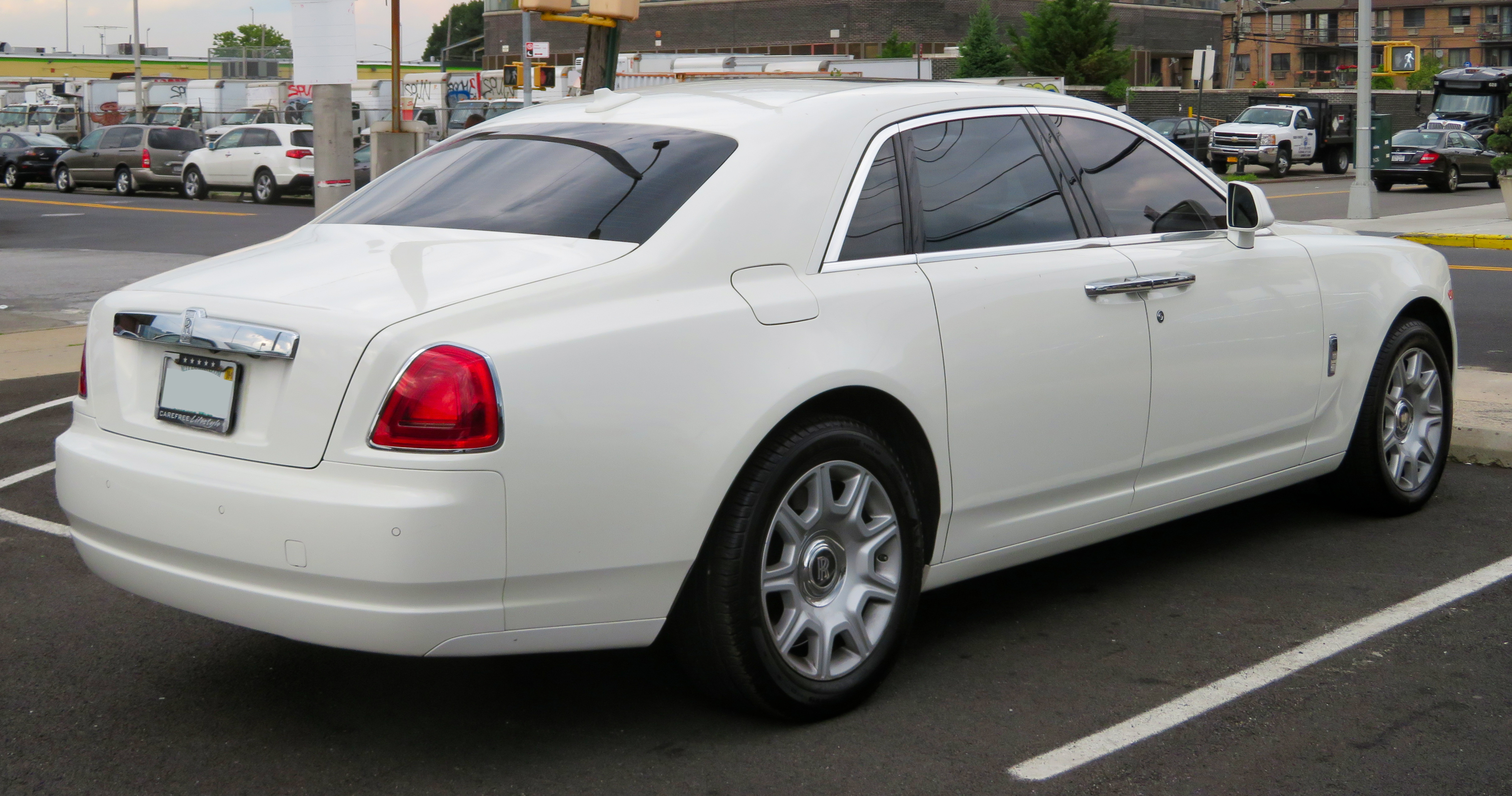 A Rolls Royce Ghost (Series I) photographed in Flushing, Queens, New York, USA